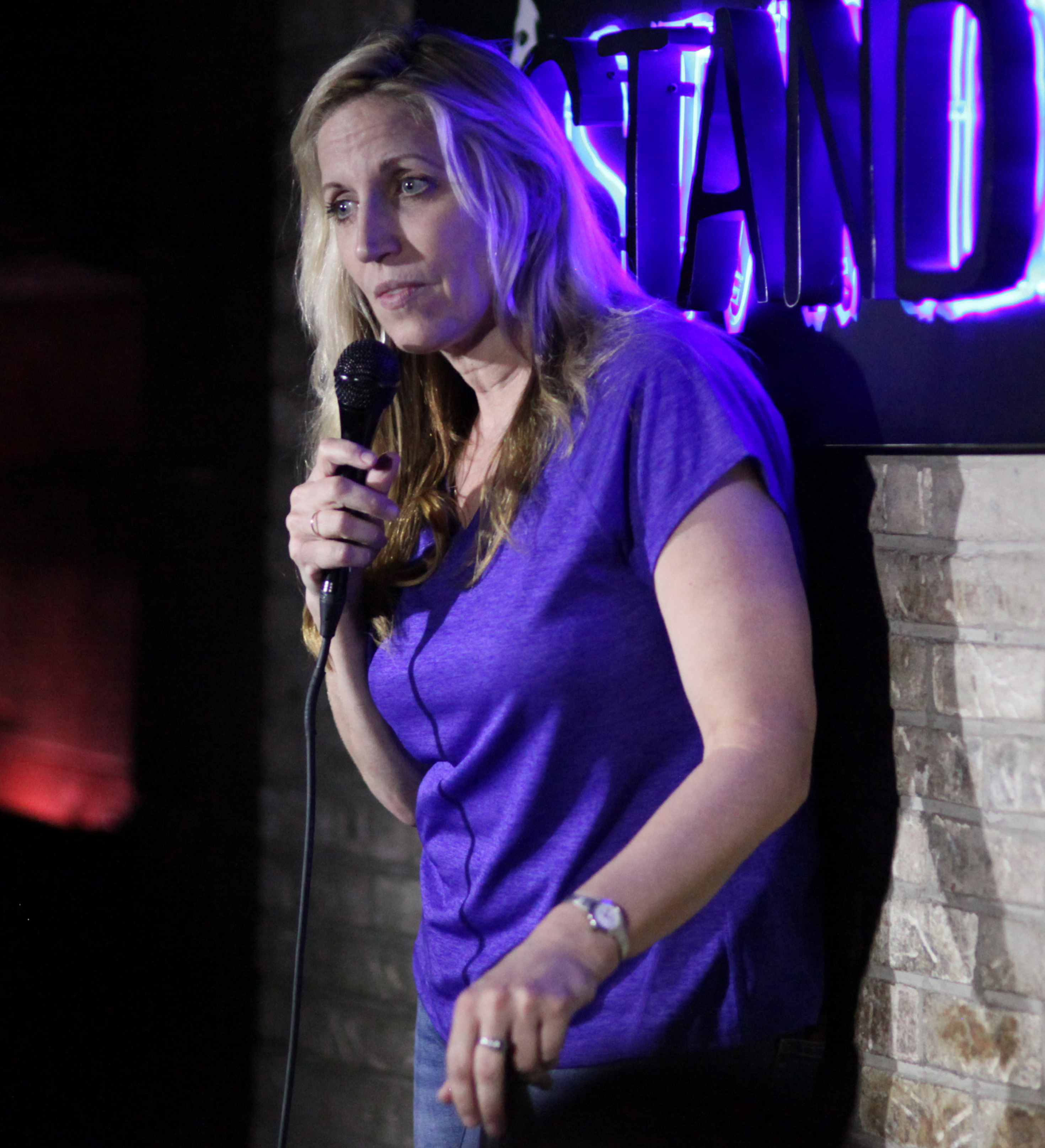 Kilmartin at The Stand in August 2016.